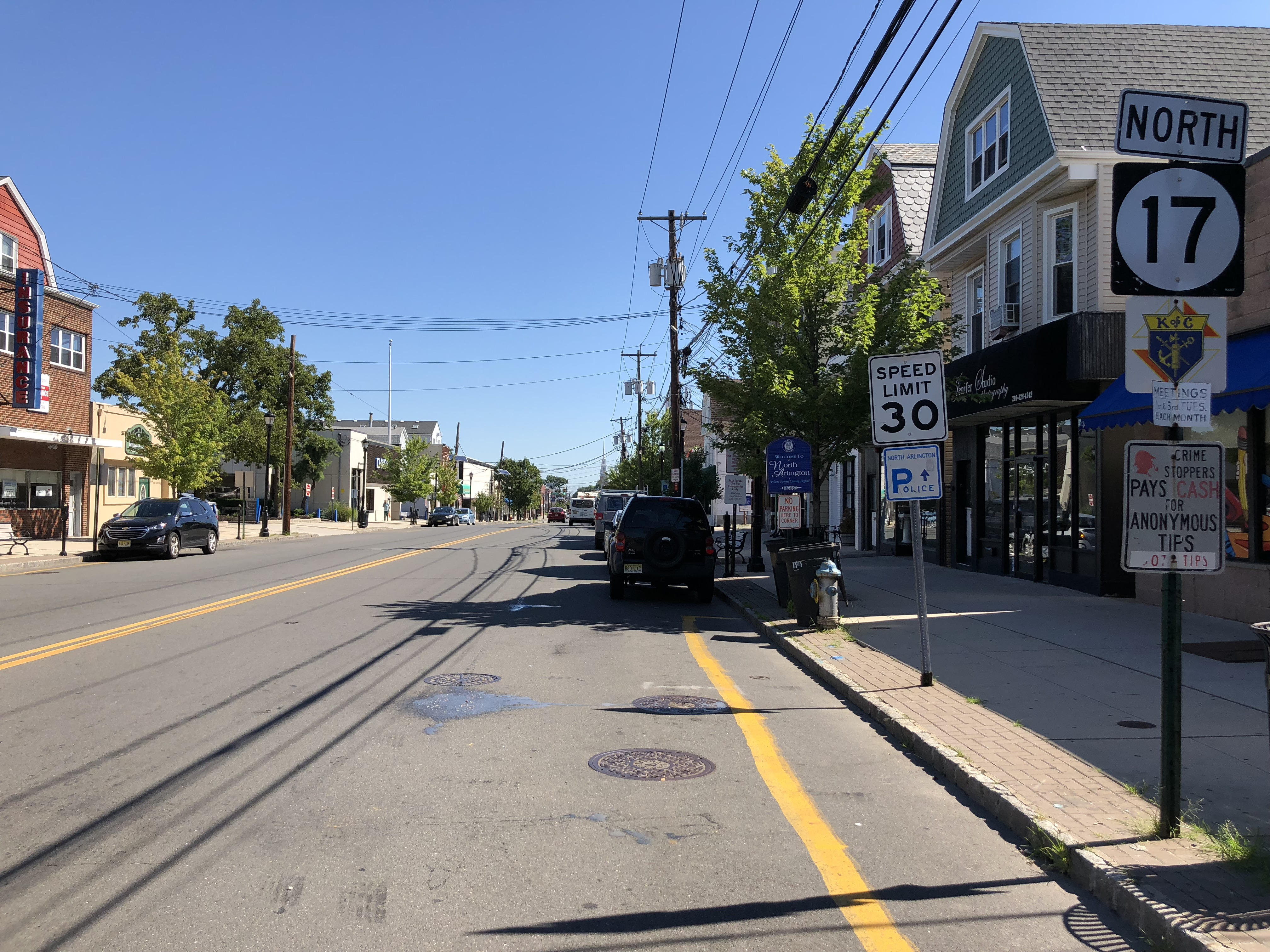 View north along New Jersey State Route 17 (Ridge Road) just north of New Jersey State Route 7 and County Route 507 (Belleville Turnpike) in North Arlington, Bergen County, New Jersey